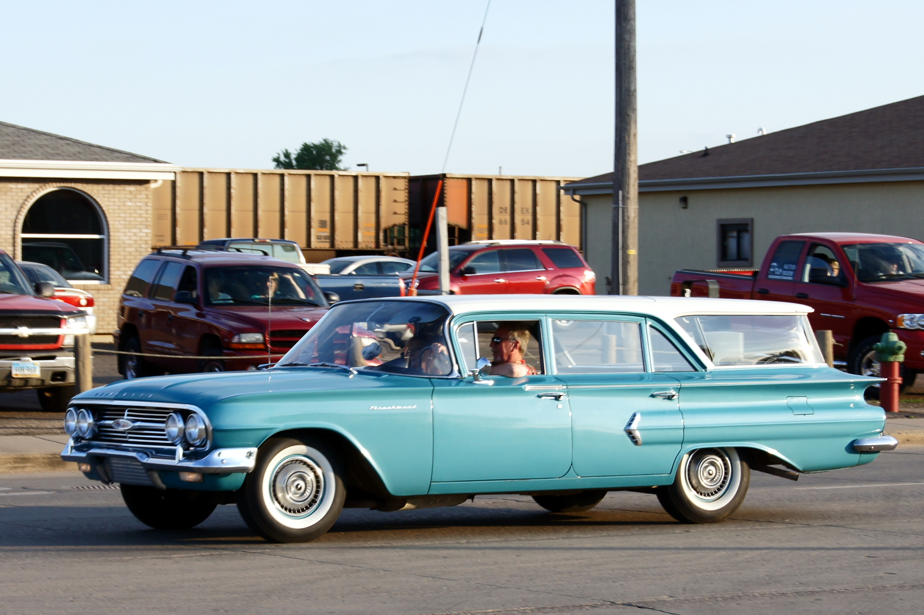 Buggies-N-Blues June 2012 Mandan North Dakota